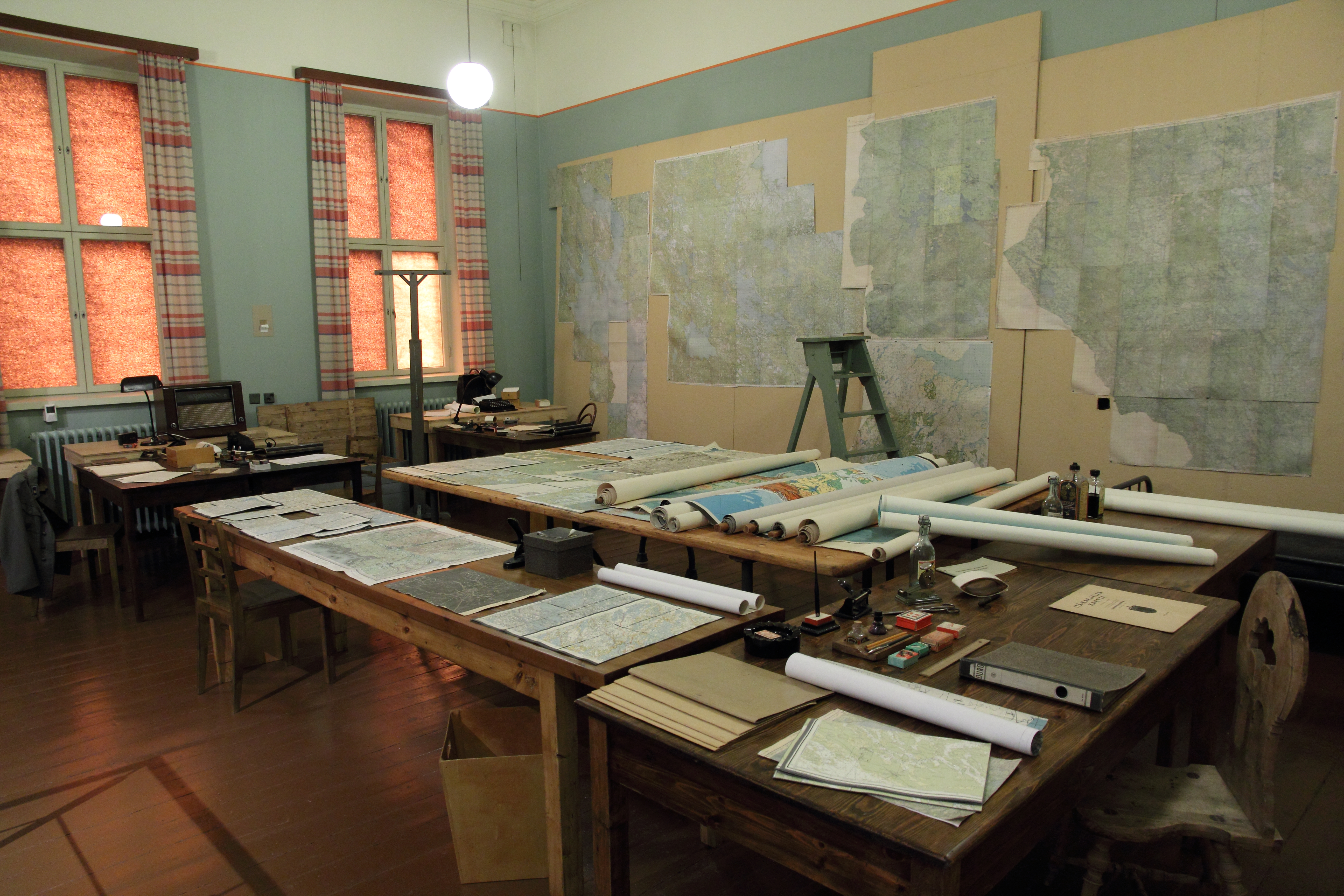 Finnish army operations office in Finnish supreme HQ museum. The museum reproduction represents the room at the turn of 1941/1942.